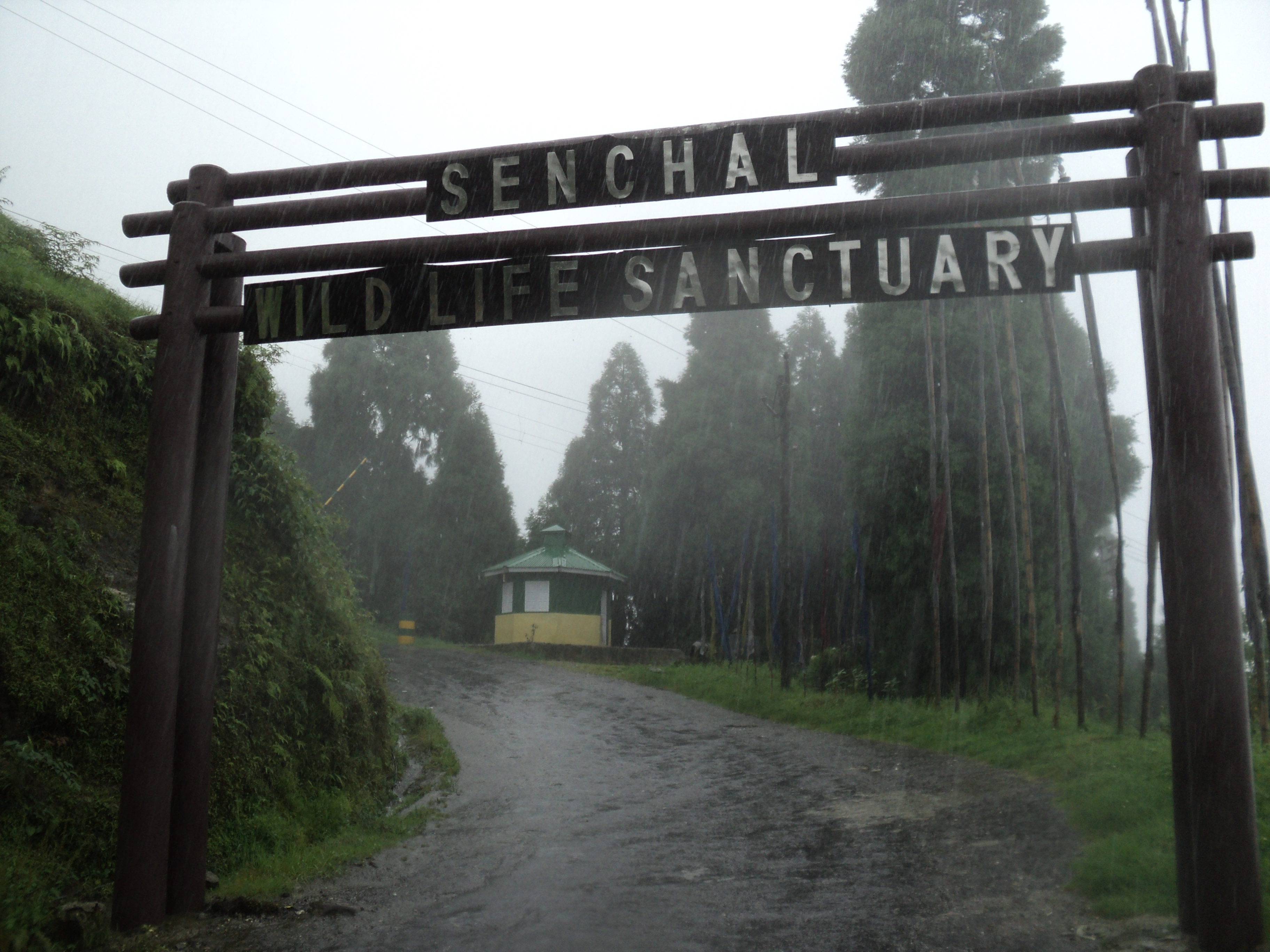 Senchal Wild Life Sanctuary, Darjeeling, India